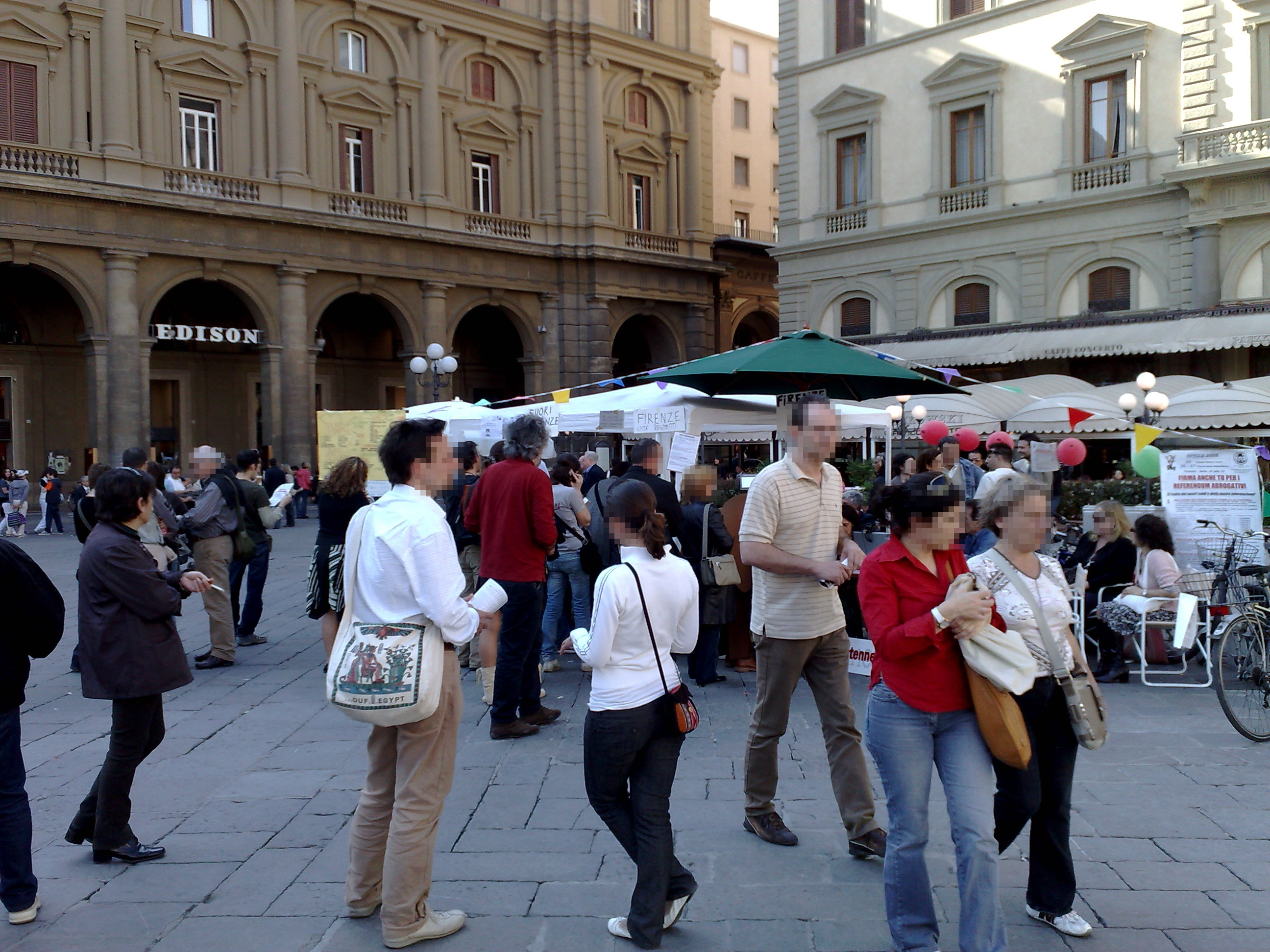 Gazebo of V2-Day in Piazza della Repubblica, Florence